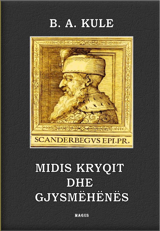 This is the cover of the book "MIDIS KRYQIT DHE GJYSMËHËNËS", from Bujar Kule, with ISBN 978-9928-4409-3-8. It's derivative work, the original painting is from the book "Des aller streytparsten und theuresten Fürsten und Herrn, Herrn Georgen Castrioten, genannt Scanderbeg ... ritterliche Thaten" - Marinus Barletius, 1533